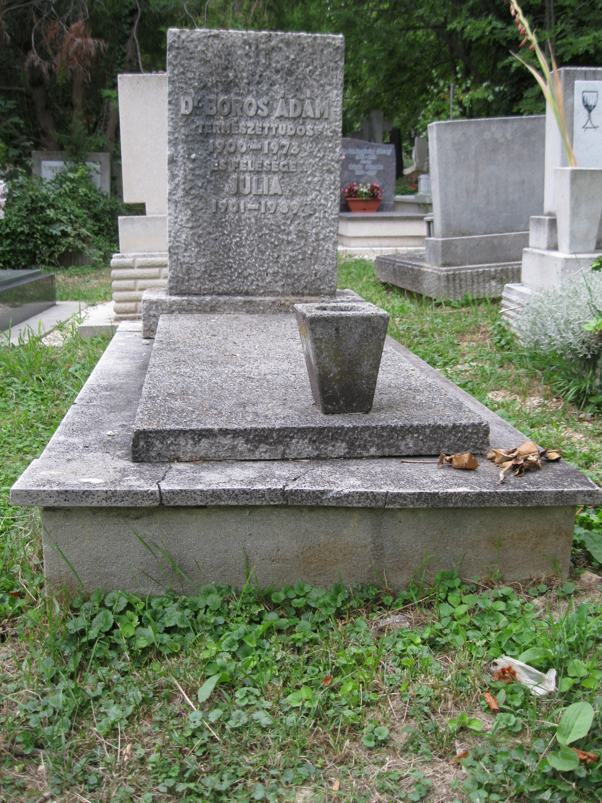 Tomb of Ádám Boros and Júlia Kenyeres in Farkasréti Cemetery [27-6-10]